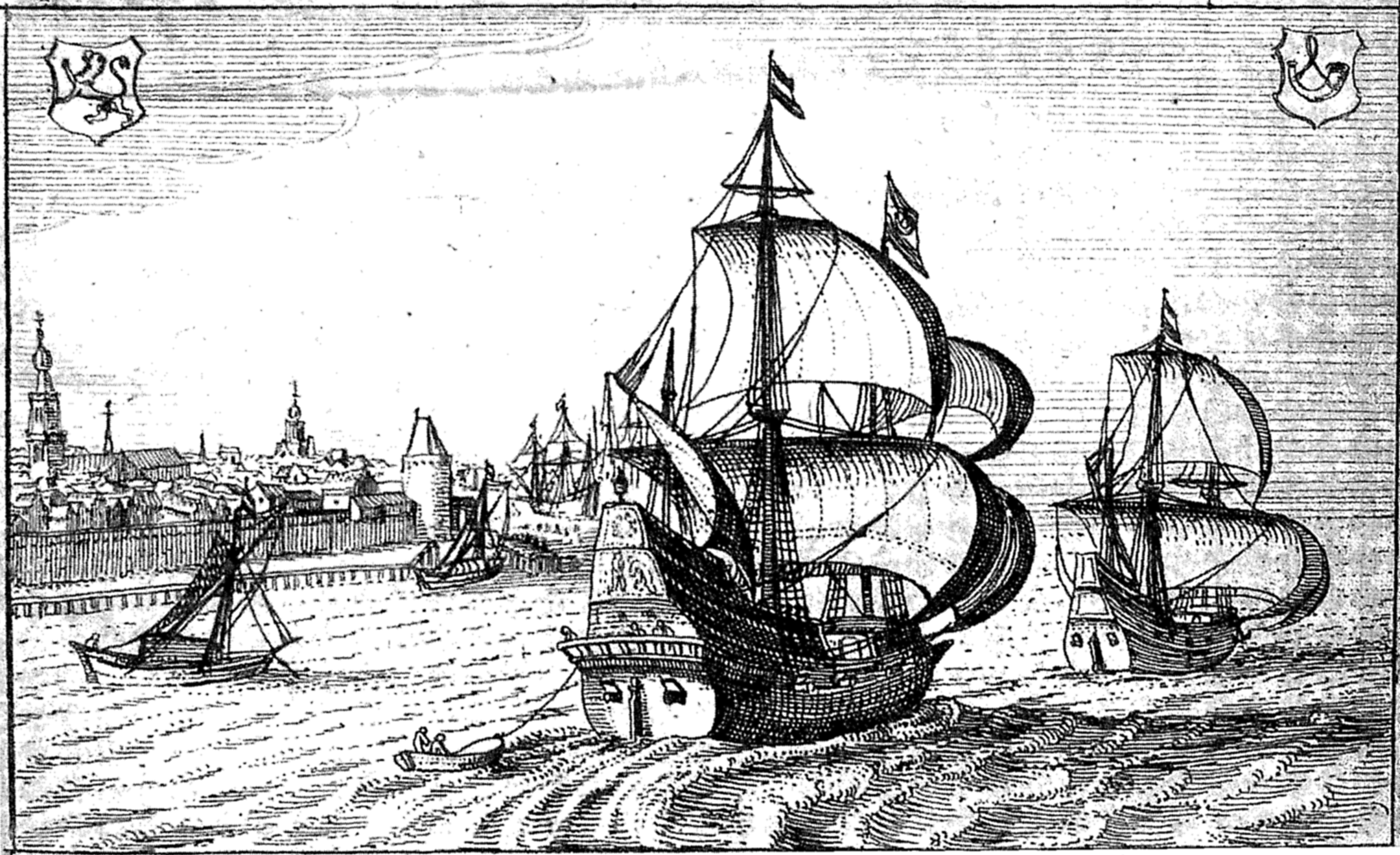 The "Eendracht" and the "Hoorn" leaving the port of Hoorn (NL)